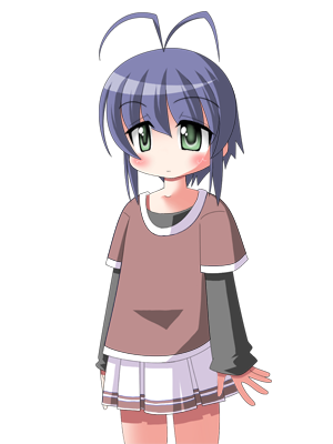 Original character